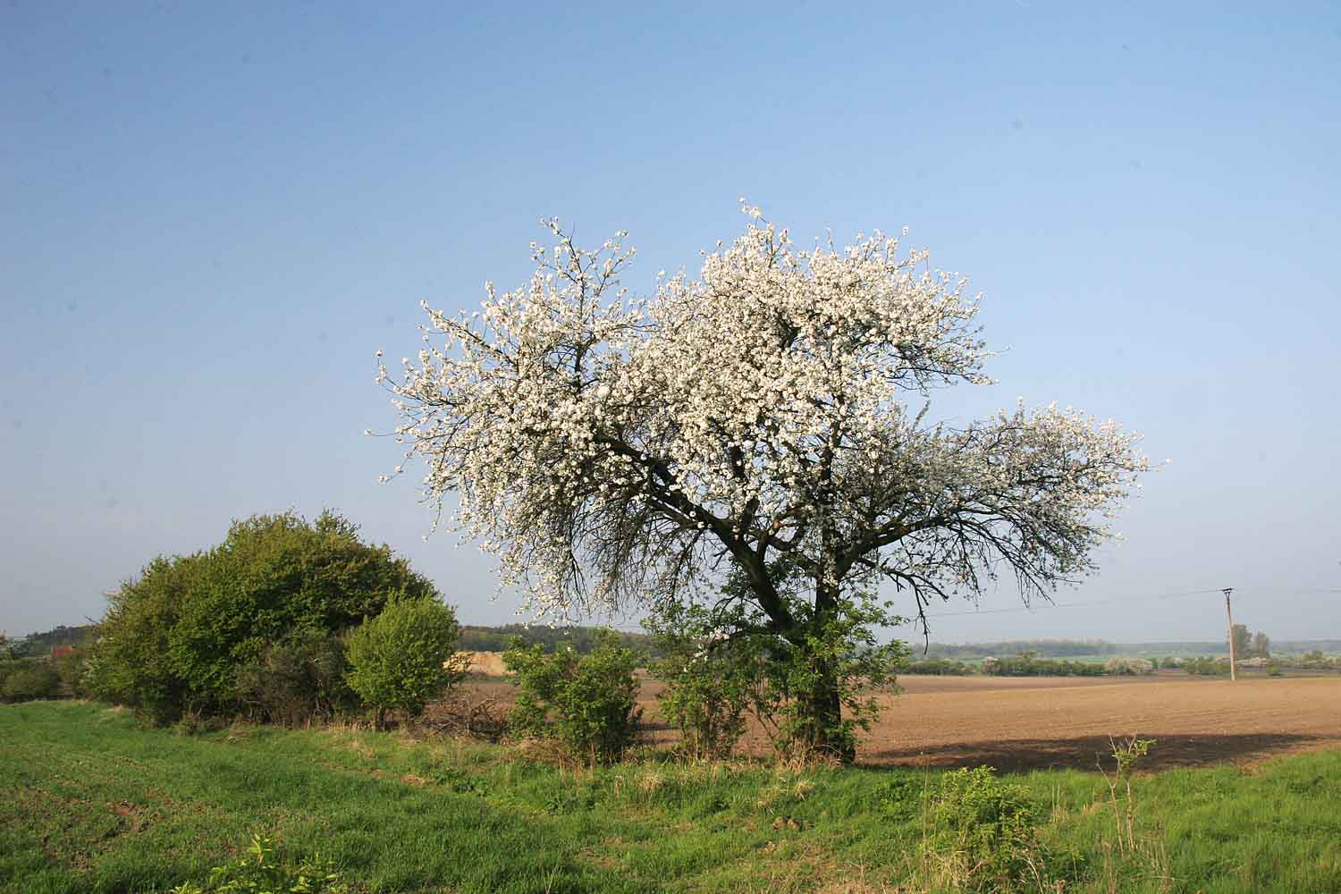 Blooming Sour Cherry, Prunus cerasus. See the English Wikipedia for more information: Sour Cherry.